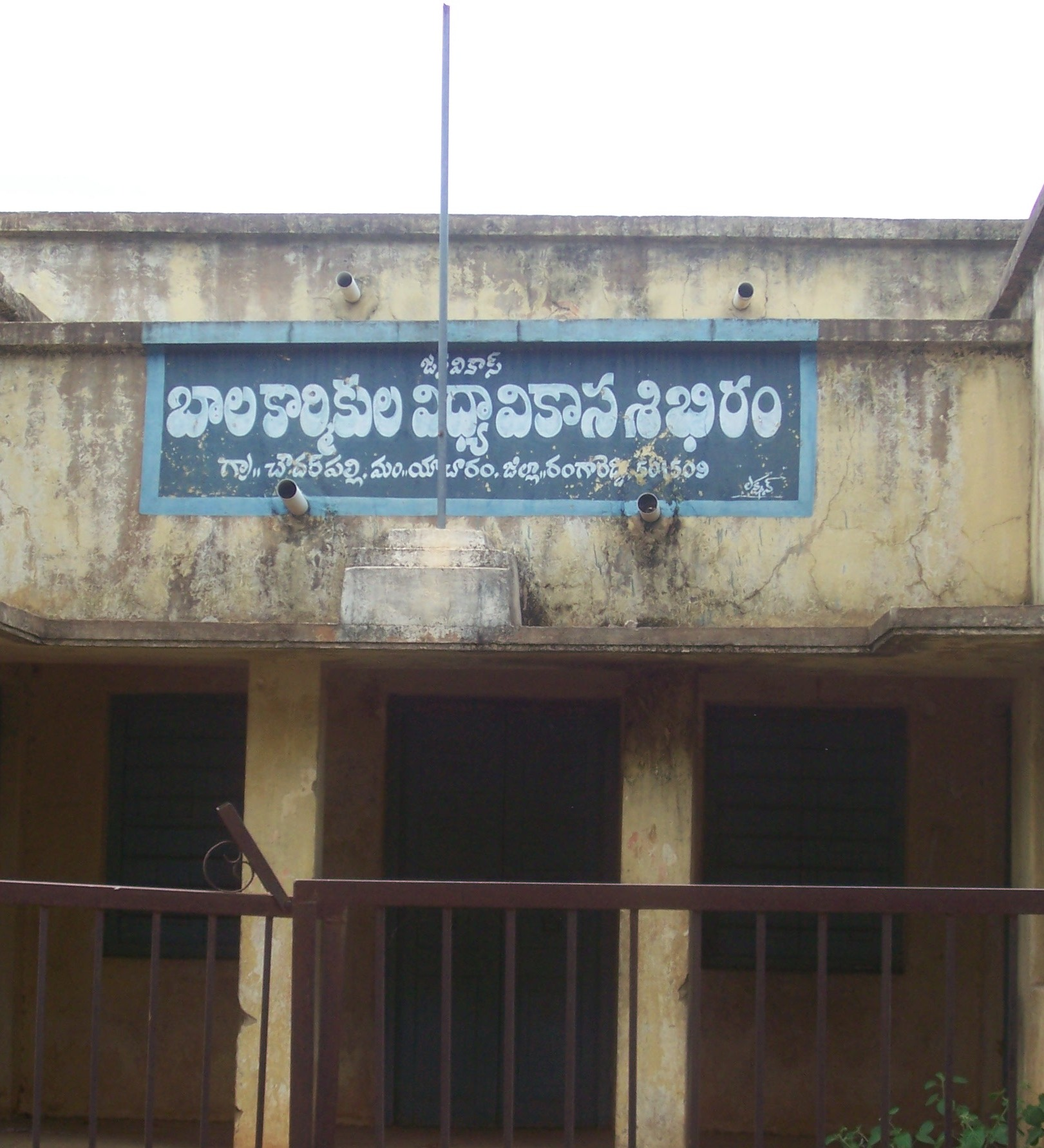 child labour relief